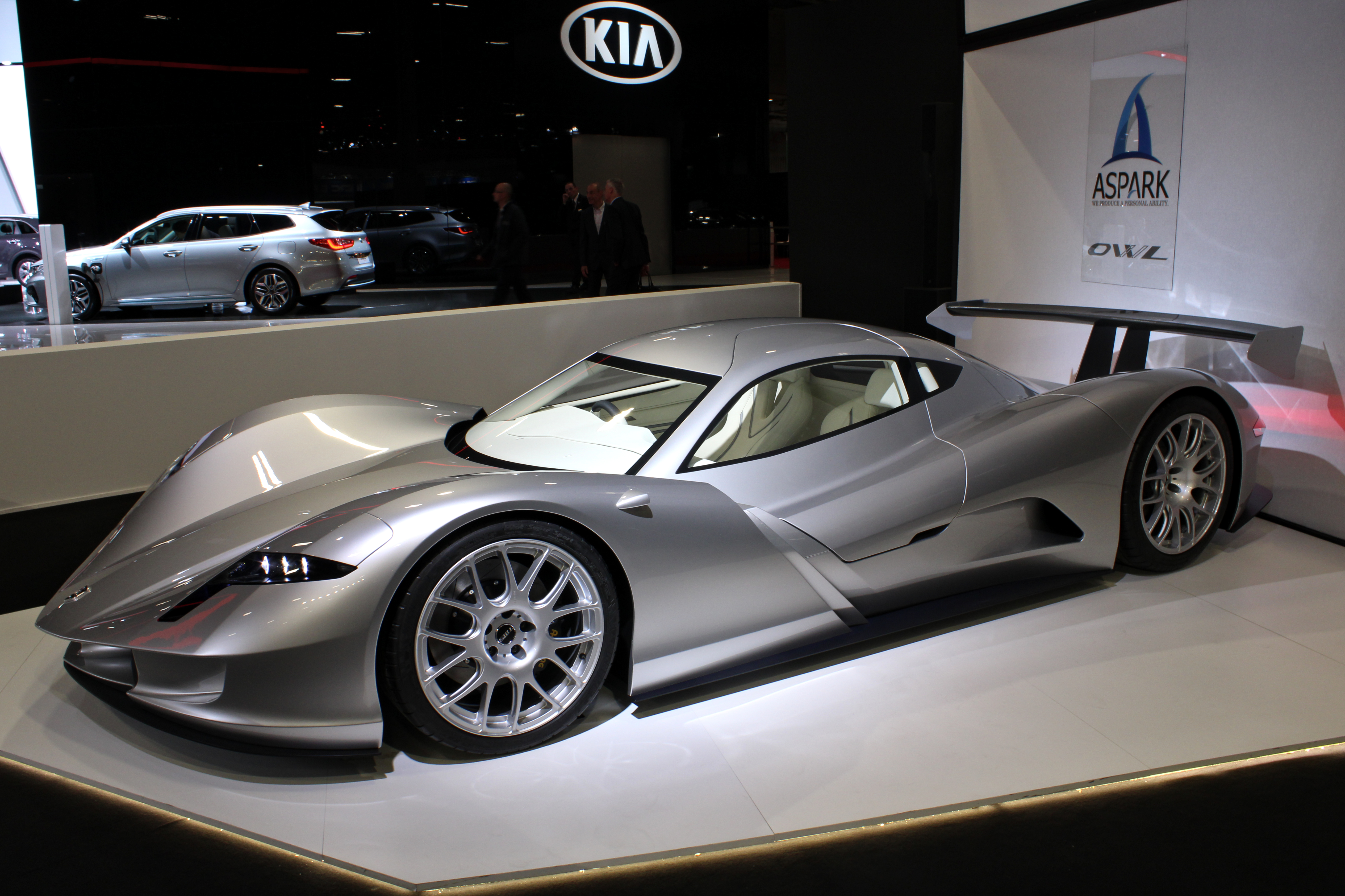 Aspark Owl at Paris Motor Show 2018